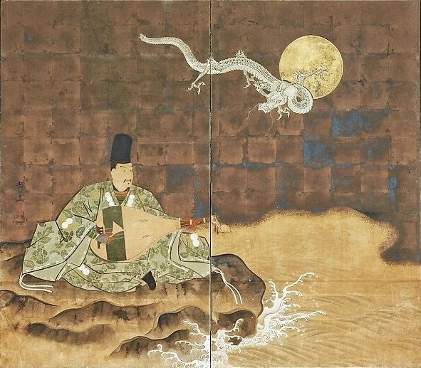 Taira no Tsumemas, twofold screen